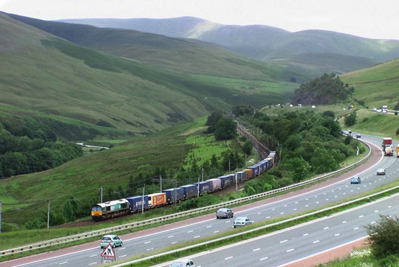 Lune Gorge The M6 and West coast mainline in the Lune Gorge